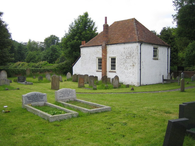 Waddesdon Hill Strict and Particular Baptist Chapel. Part of the notice board outside this isolated but well cared-for Grade II listed chapel reads that it was "Built in 1792 at the expense of Francis Cox for the use of Particular Baptists. Being no longer needed for its original purpose the chapel was acquired through the generosity of the descendants of the original donor and the Buckingham Historic Buildings Trust Ltd and presented in 1986 to the Friends of Friendless Churches". The Friends' very informative website page showing this building is here The page has an early photograph and a description of the interior including the total immersion font. (I hasten to add that the contributor has no family connection with the original donor!)